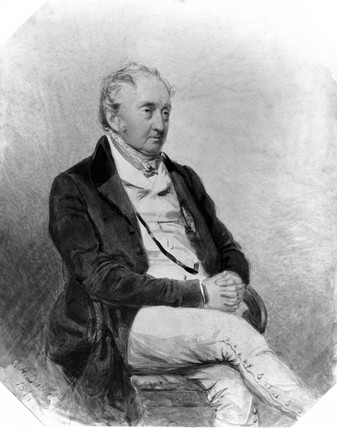 Photograph of a portriat of John Kennedy, cotton spinner and textile machine maker